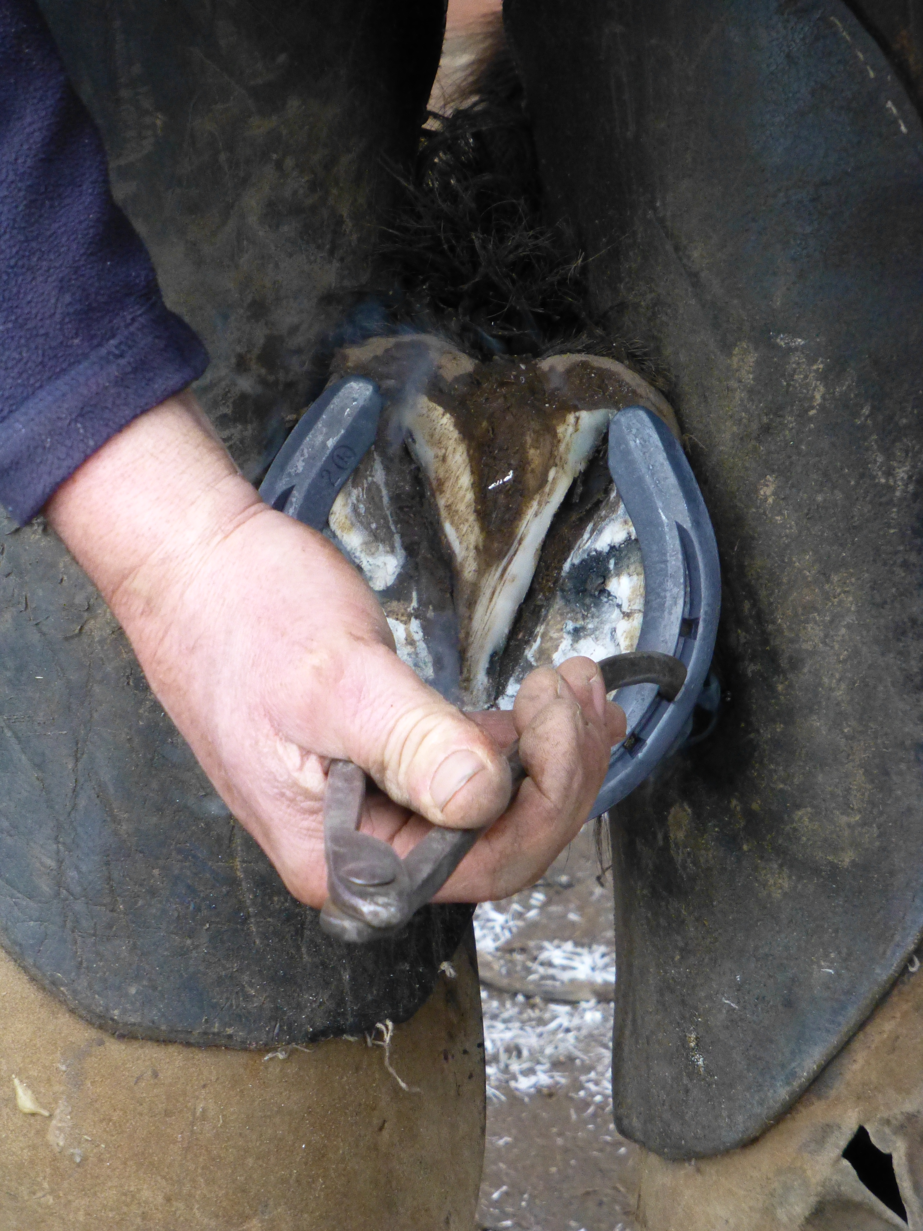 Farrier Jim, KnockBracken, Co. Antrim, Ireland January 2015